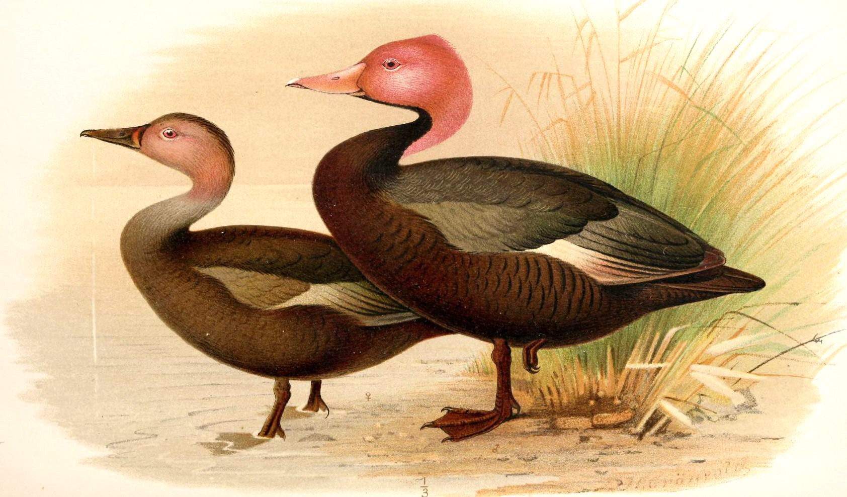 The Pink-headed Duck Rhodonessa caryophyllacea = Rhodonessa caryophyllacea (Pink-headed Duck)